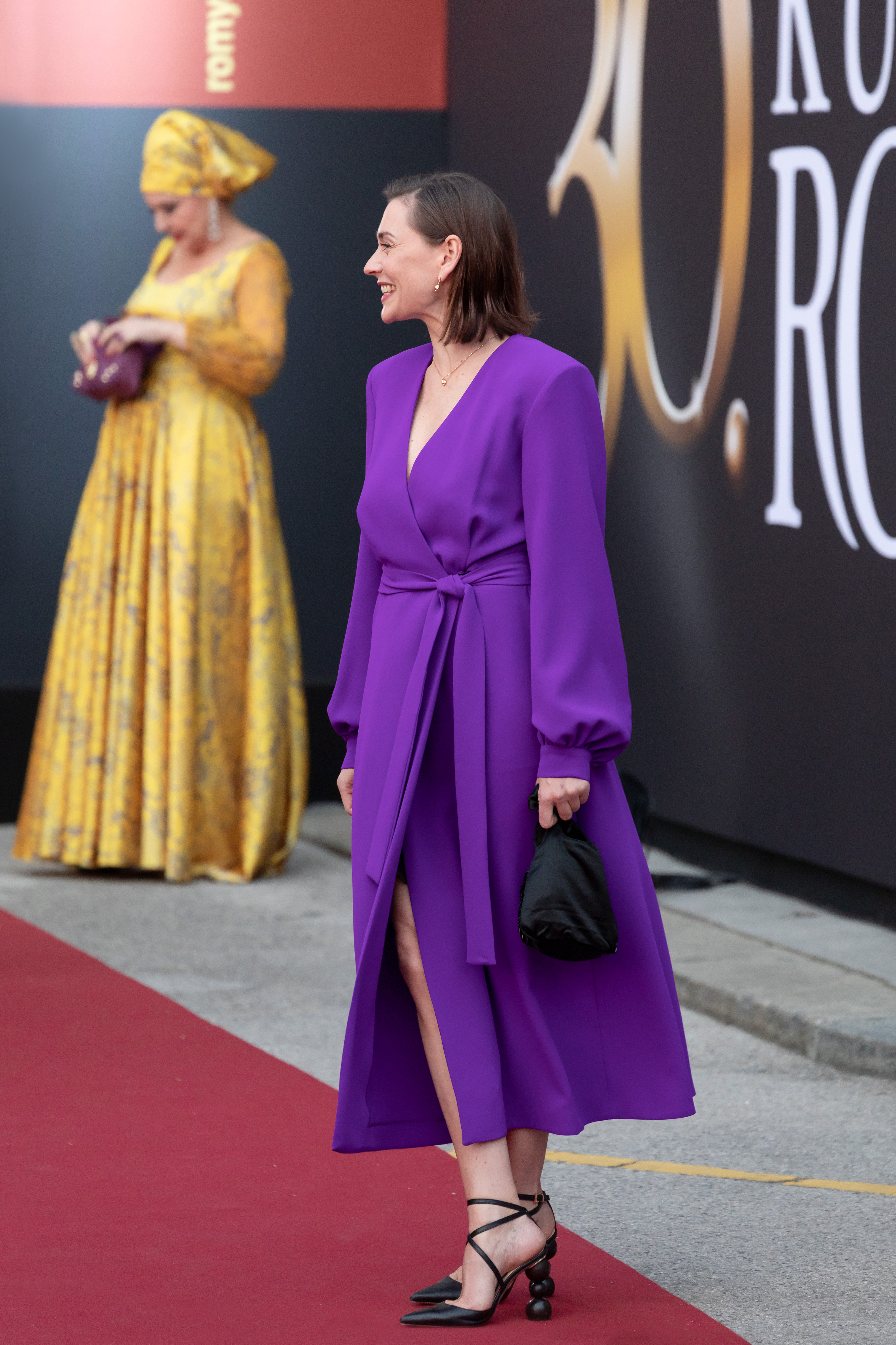 Christiane Paul on the red carpet of the Romy TV awards 2019 at Hofburg Palace in Vienna, Austria.